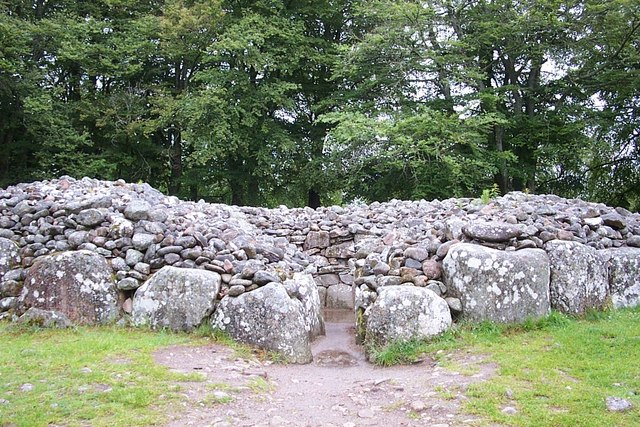 Clava Cairns The North-East Passage Cairn - although today this is open to the elements, originally the overlapping stone structure would have been built to form a totally enclosed, three and a half metre high, inner chamber. The entrance is oriented so that the setting sun on the longest day of the year would illuminate the chamber